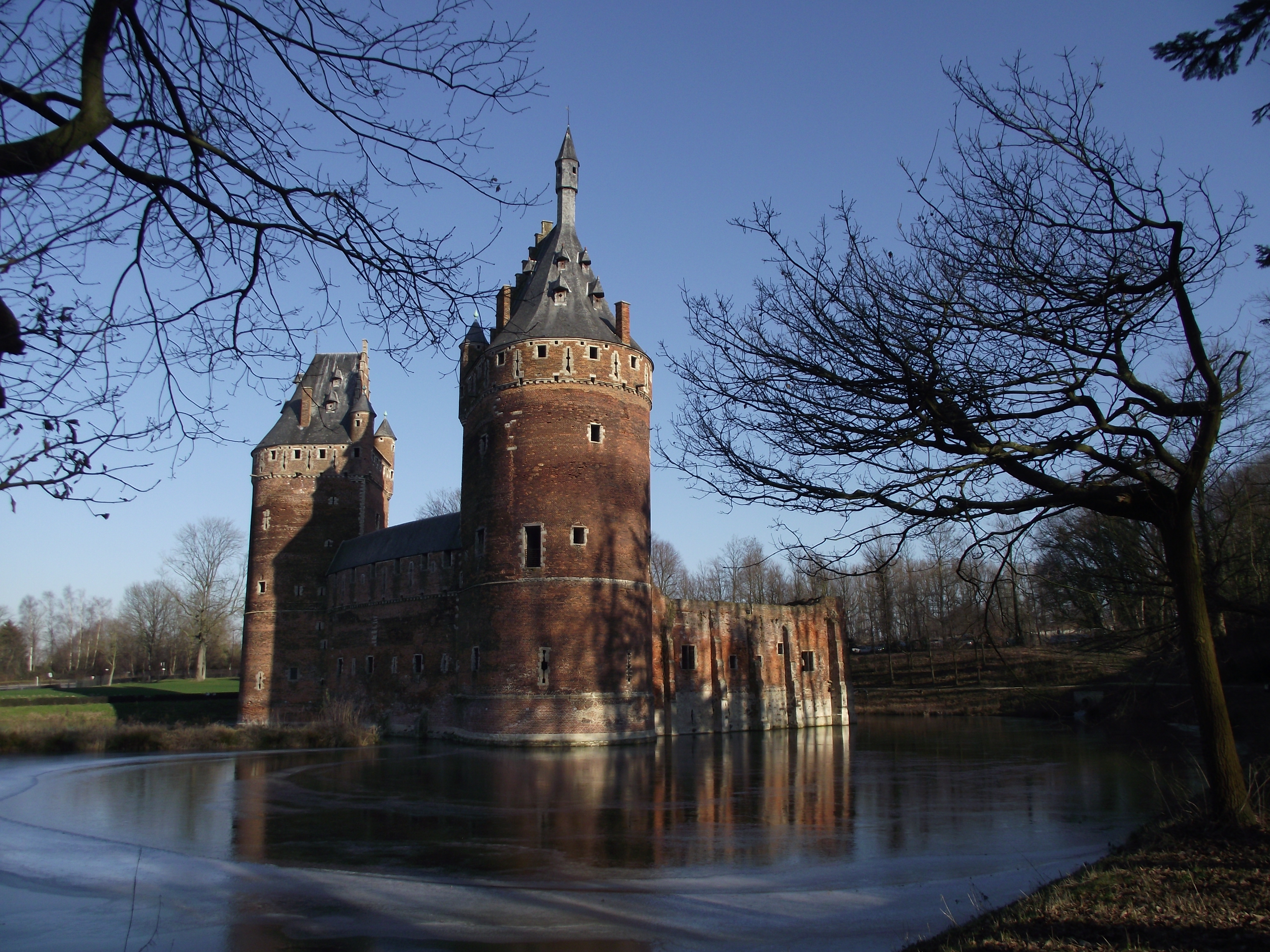 Castle of Beersel, XVI Century